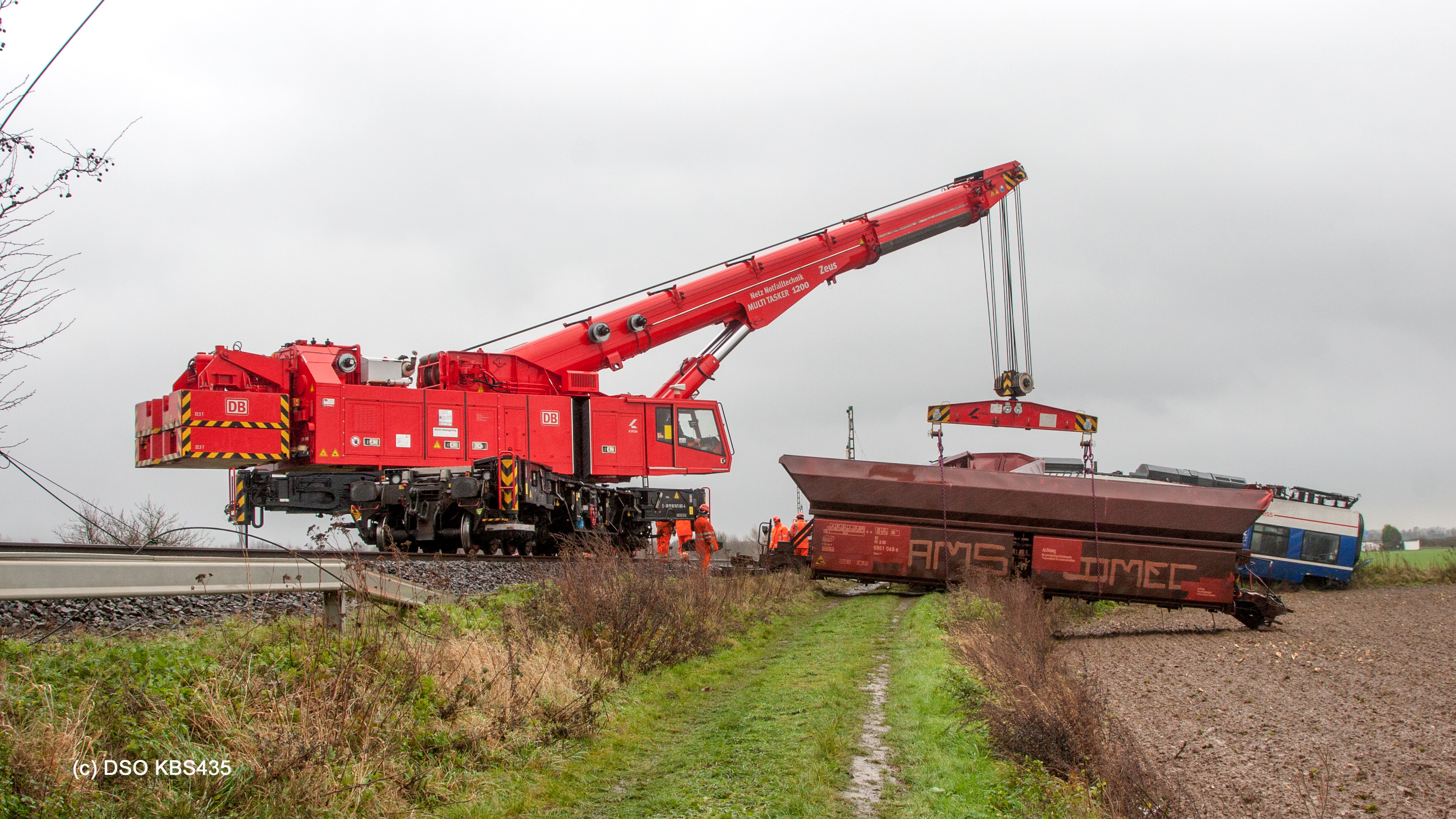 Crane works at train accident site near Meerbusch on 8 Dec 2017